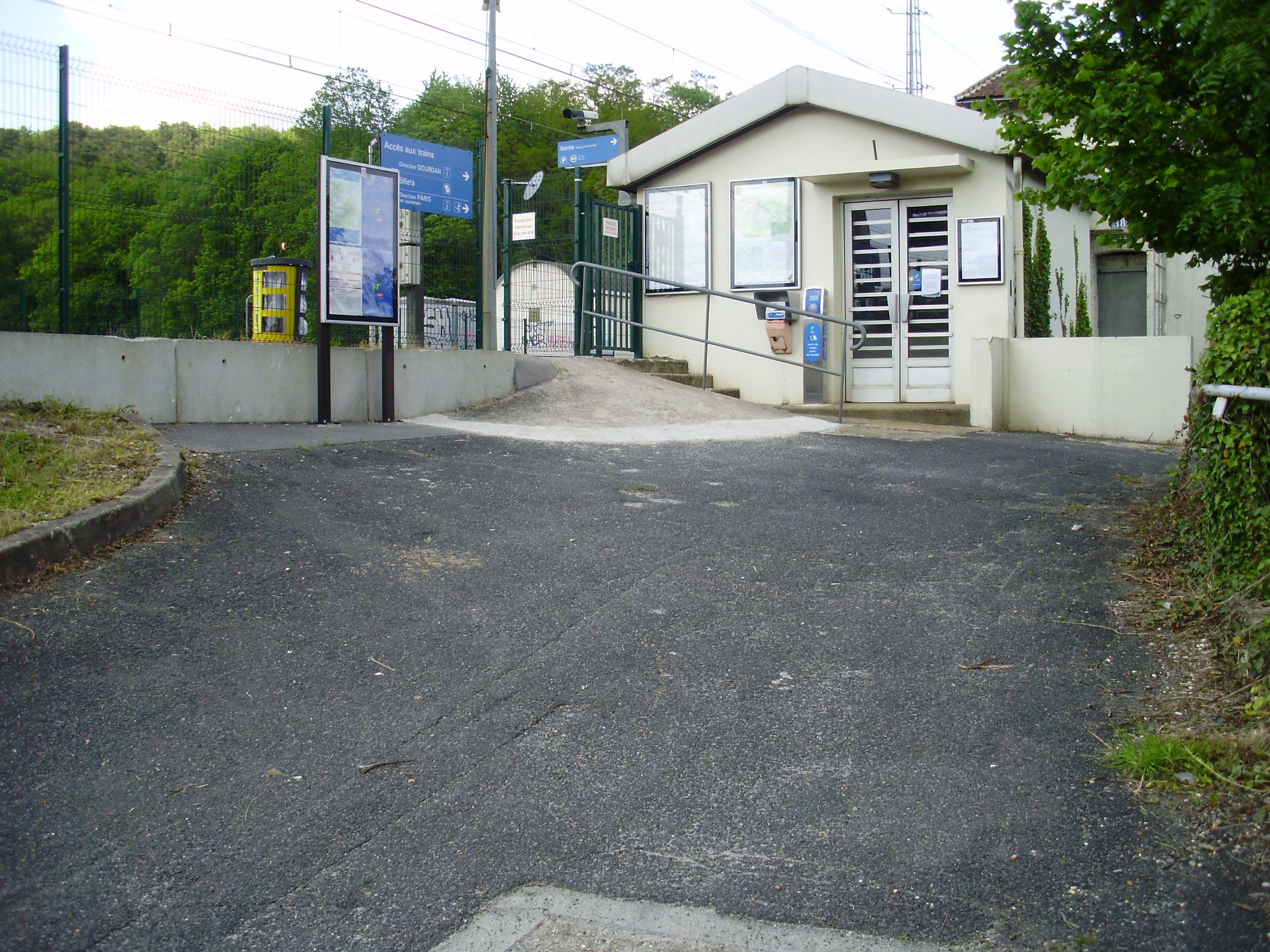 Sermaise station, Essonne, France